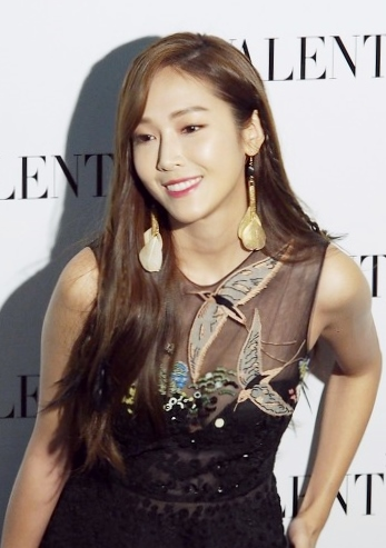 Jessica Jung at Marina Bay Sands Valentino event on January 13, 2016.